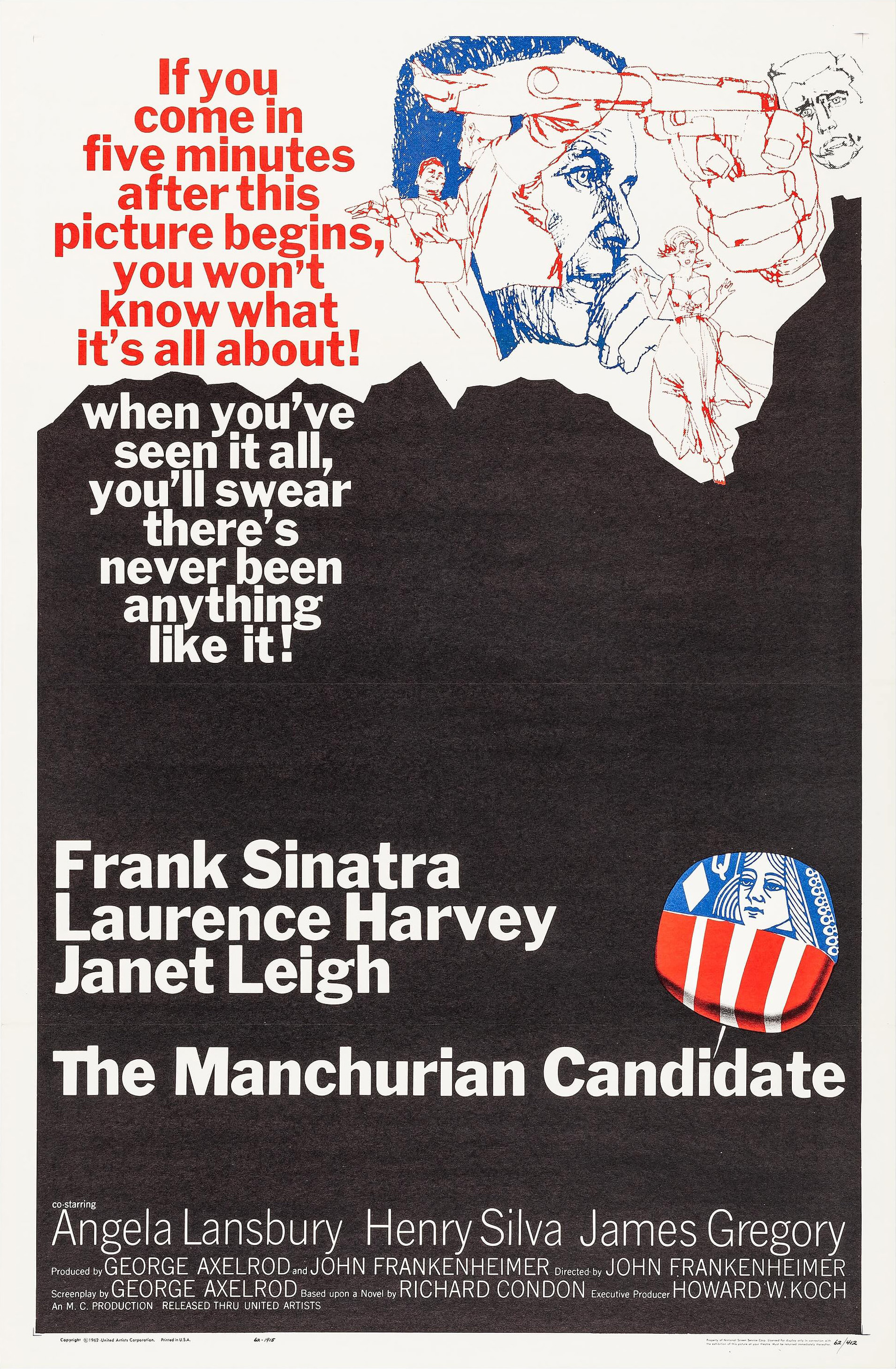 Poster for the US theatrical release of the 1962 film The Manchurian Candidate. The text reads: "If you come in five minutes after this picture begins, you won't know what it's all about! when you've seen it all, you'll swear there's never been anything like it!"